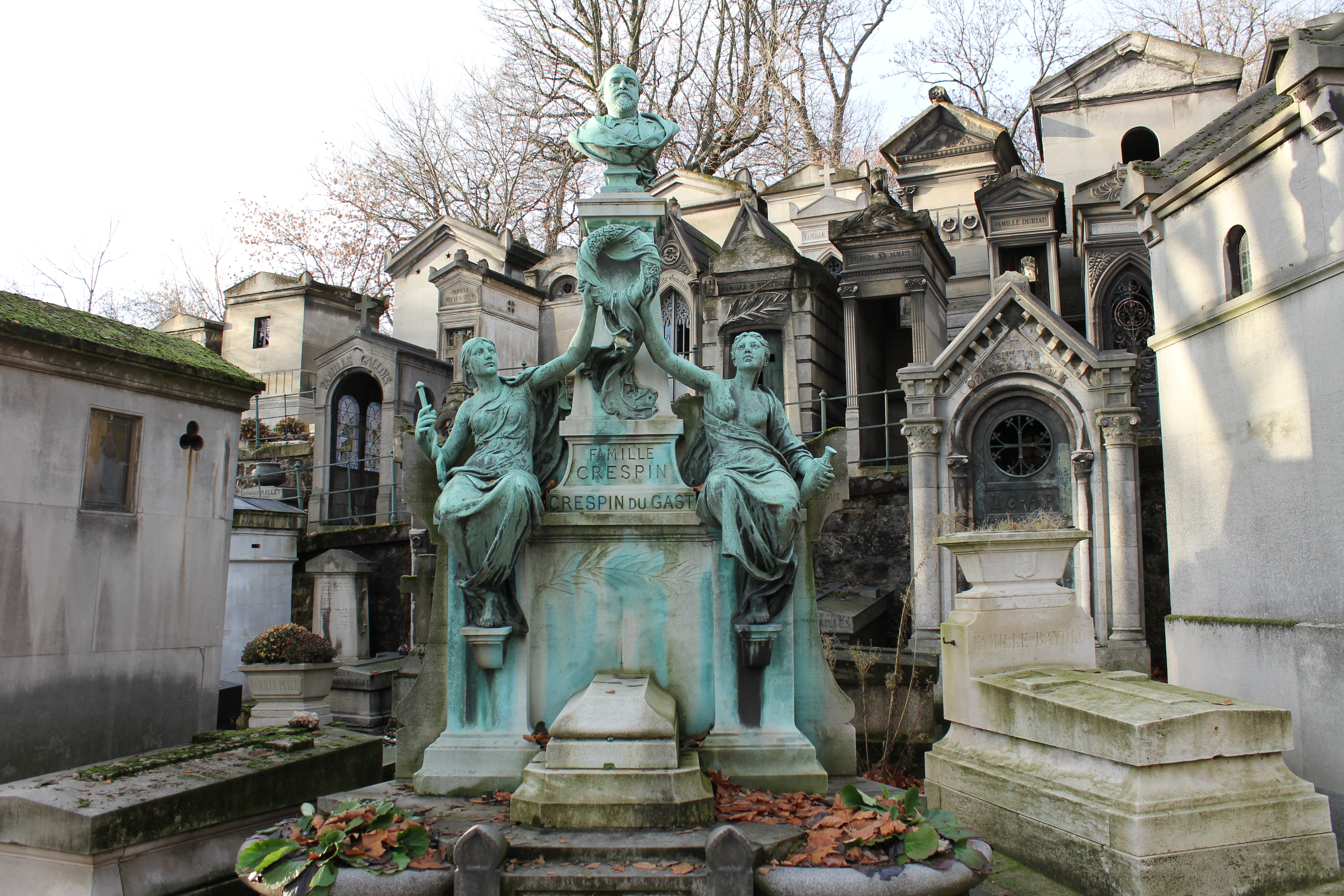 Camille Crespin du Gast's tombstone in Père Lachaise Cemetery, in Paris.